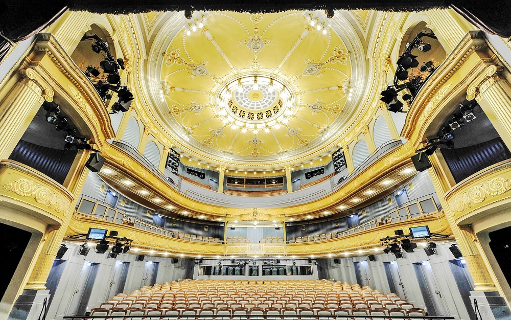 Meiningen Court Theatre - Auditorium